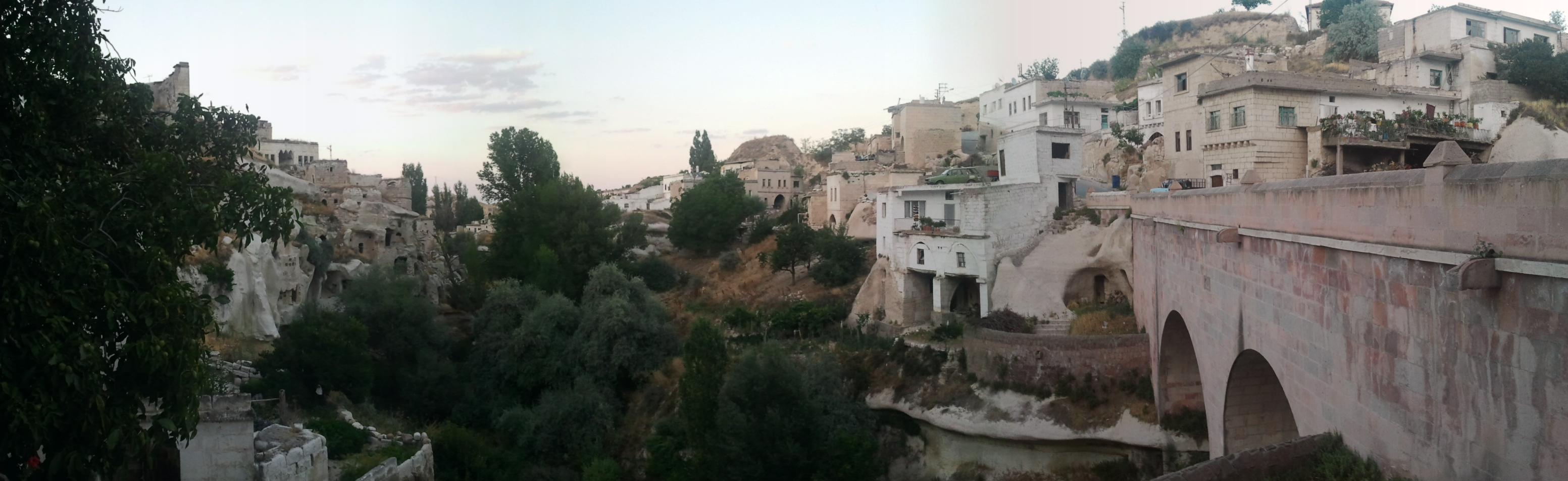 İbrahimpasa bridge in Cappadocia, El puente de babayan en capadocia